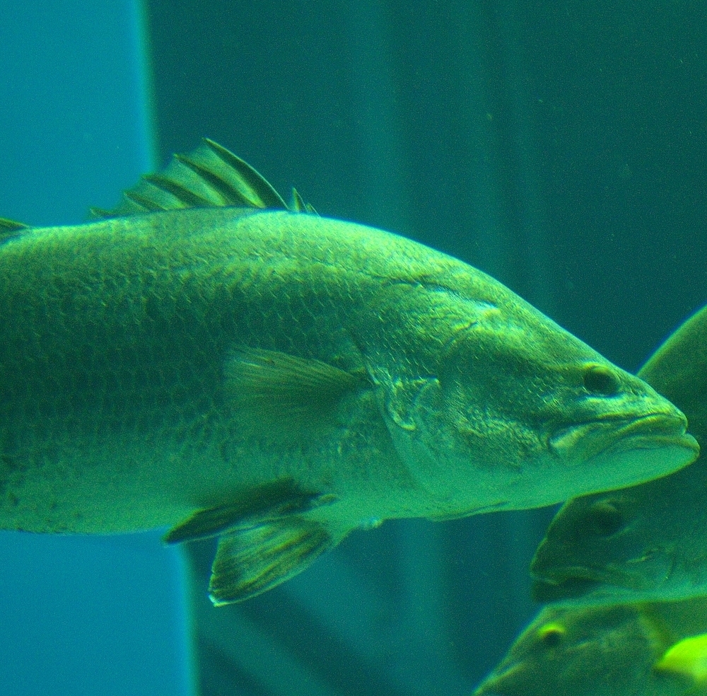 Japanese lates, Osaka Kaiyukan, Japan